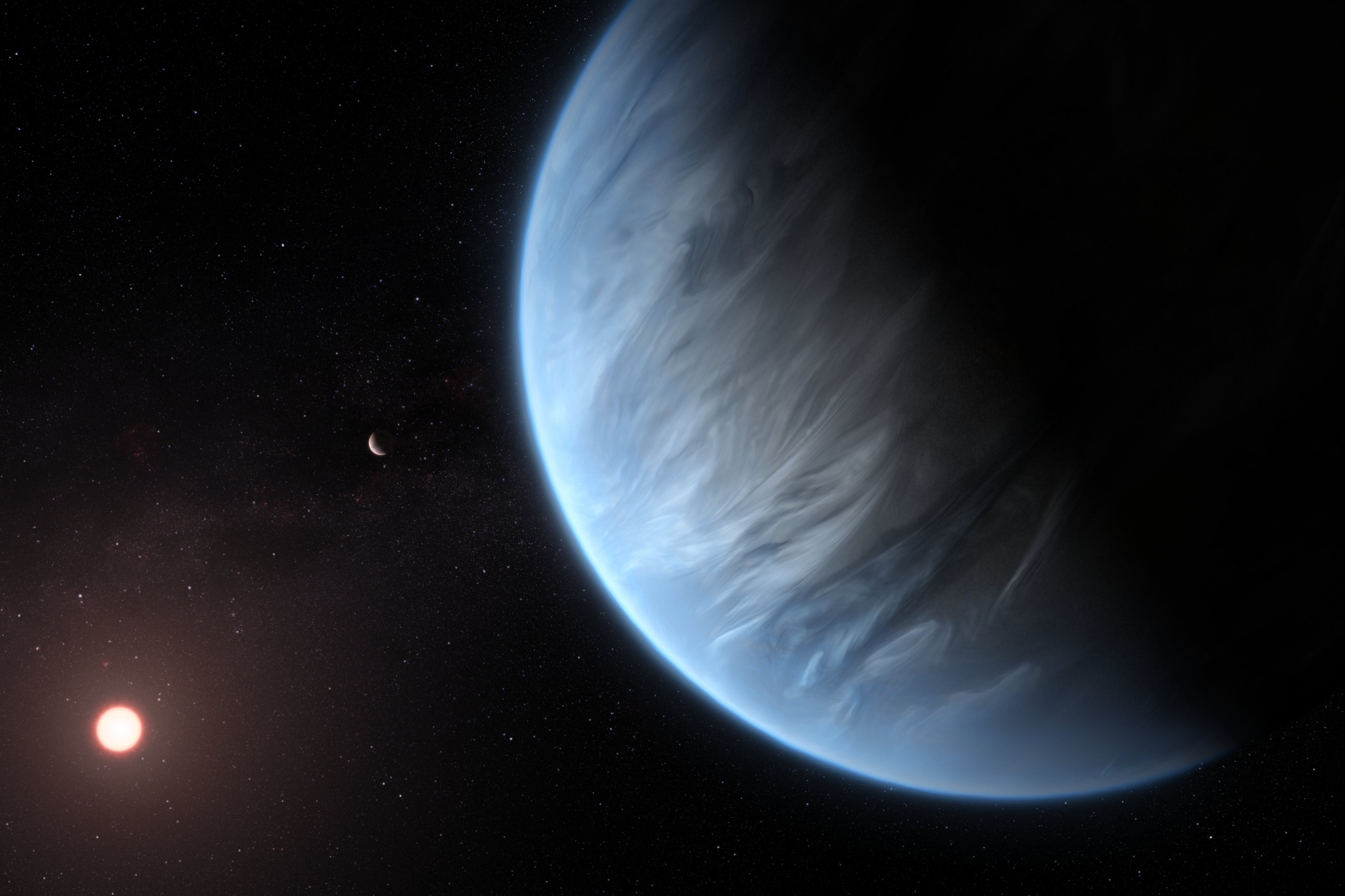 This artist's impression shows the planet K2-18b, its host star and an accompanying planet in this system. K2-18b is now the only super-Earth exoplanet known to host both water and temperatures that could support life. UCL researchers used archive data from 2016 and 2017 captured by the NASA/ESA Hubble Space Telescope and developed open-source algorithms to analyse the starlight filtered through K2-18b's atmosphere. The results revealed the molecular signature of water vapour, also indicating the presence of hydrogen and helium in the planet's atmosphere.